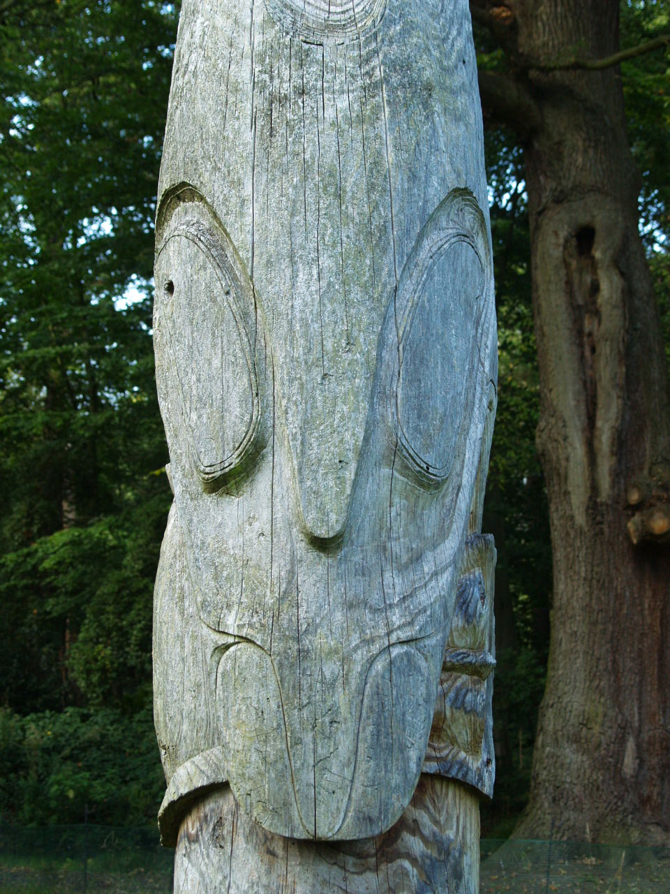 Canadian Totem Pole Bushy Park, Norman Tait, 1992